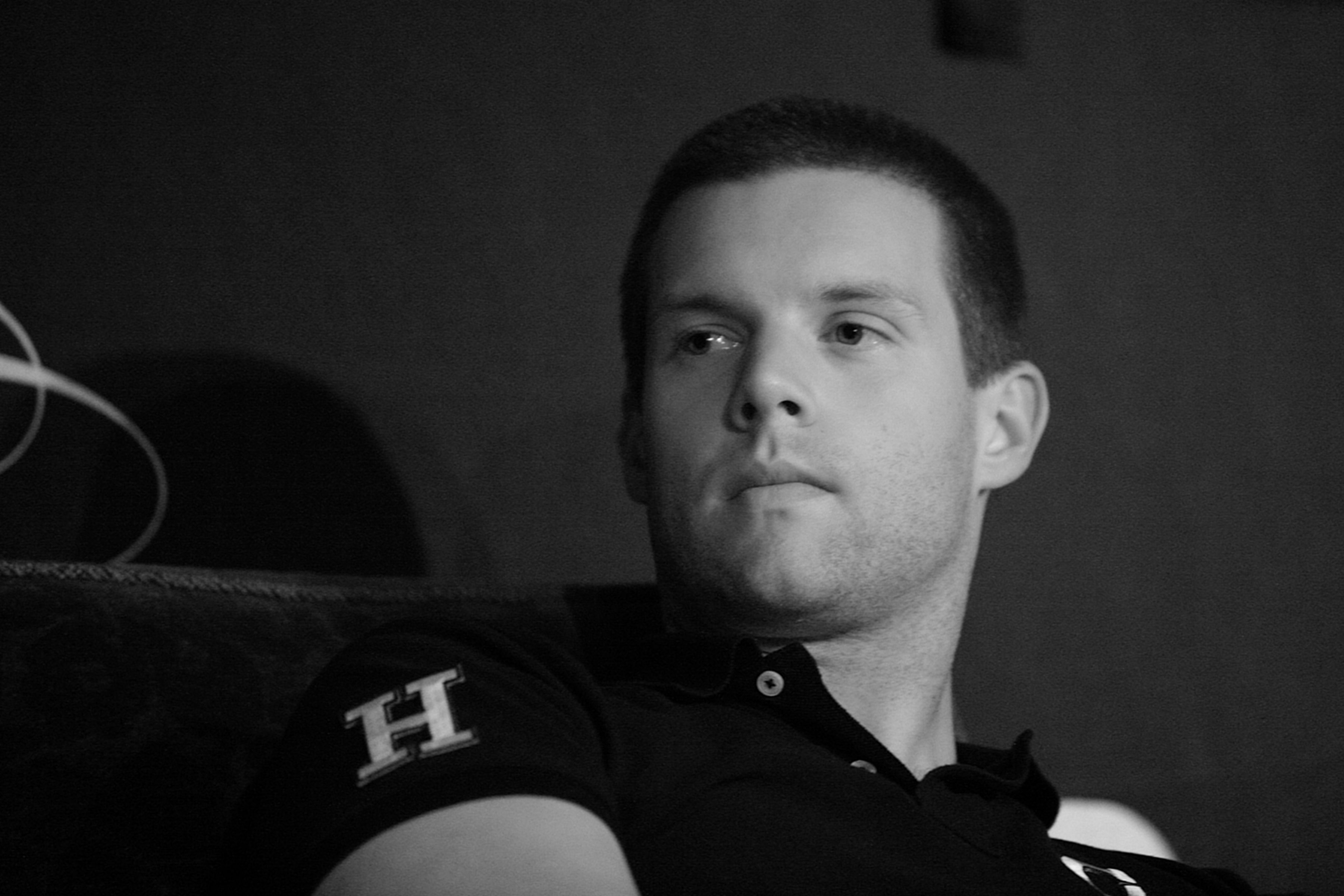 The Hives at the Eurockéennes of 2007